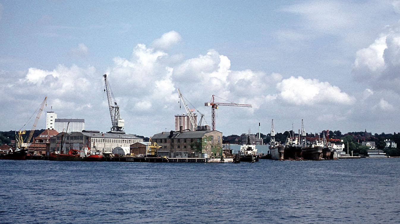 Svendborg shipbuilding yard.